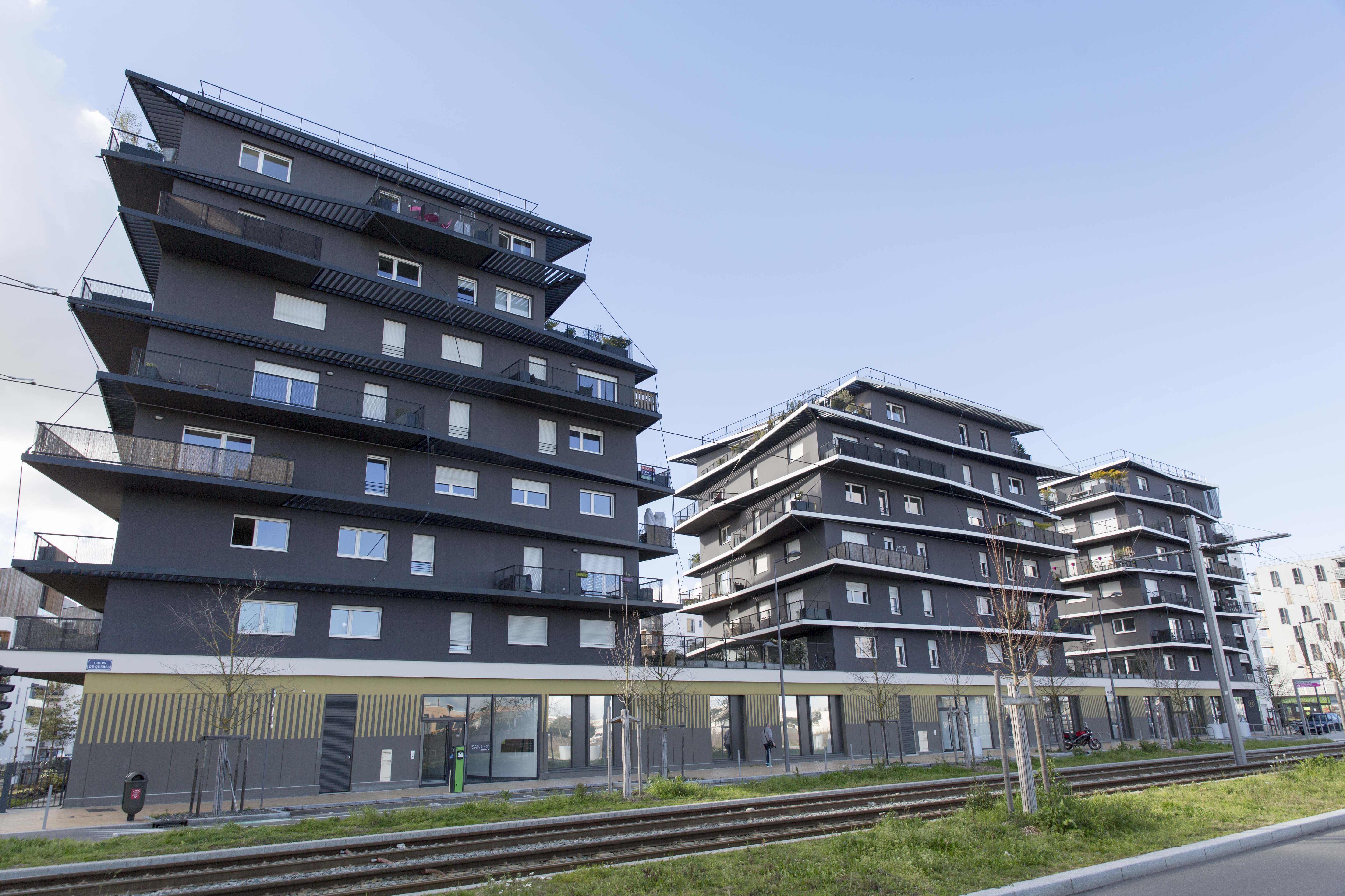 Quartier Ginko